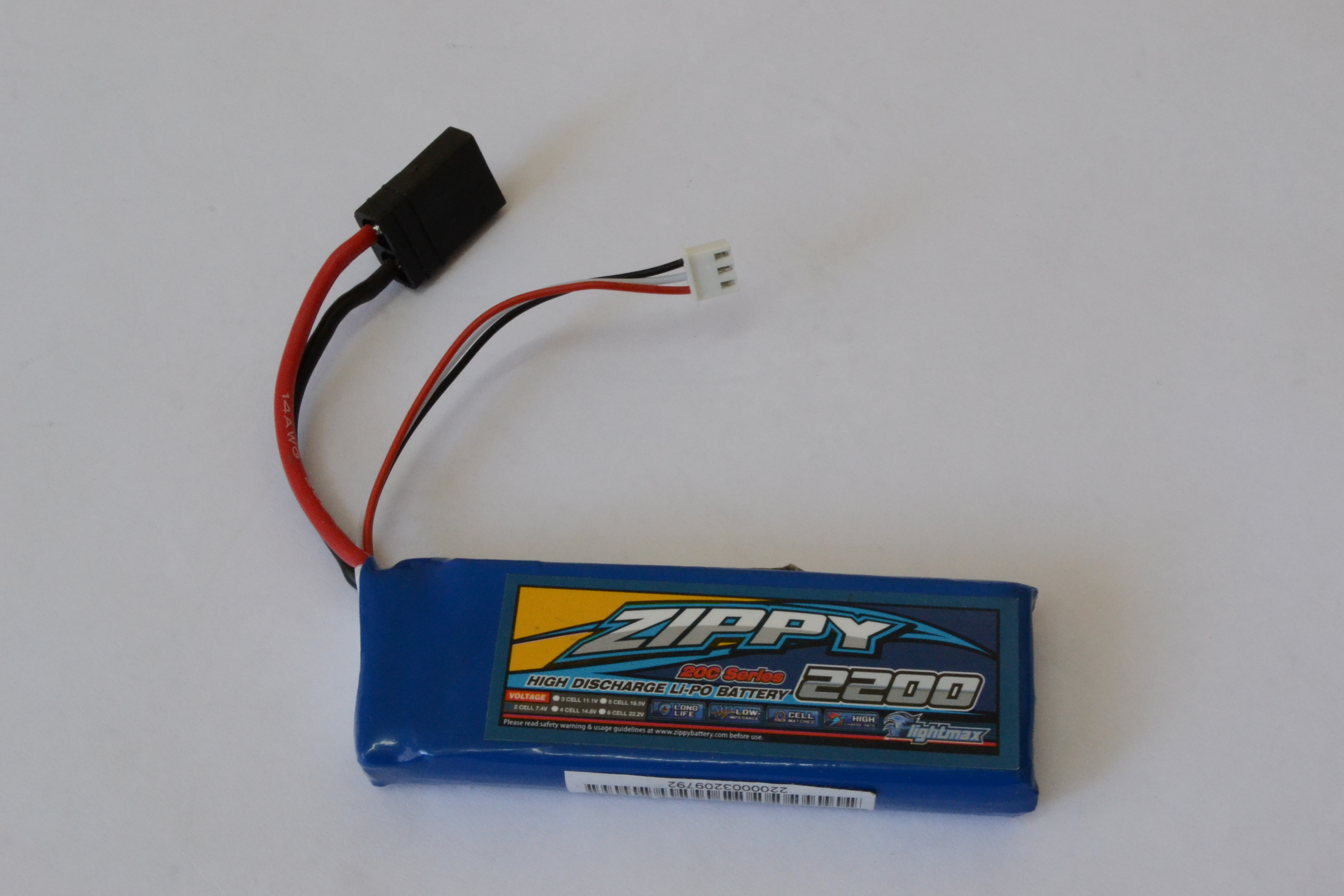 Zippy 2200 20C Series lithium-polymer battery.